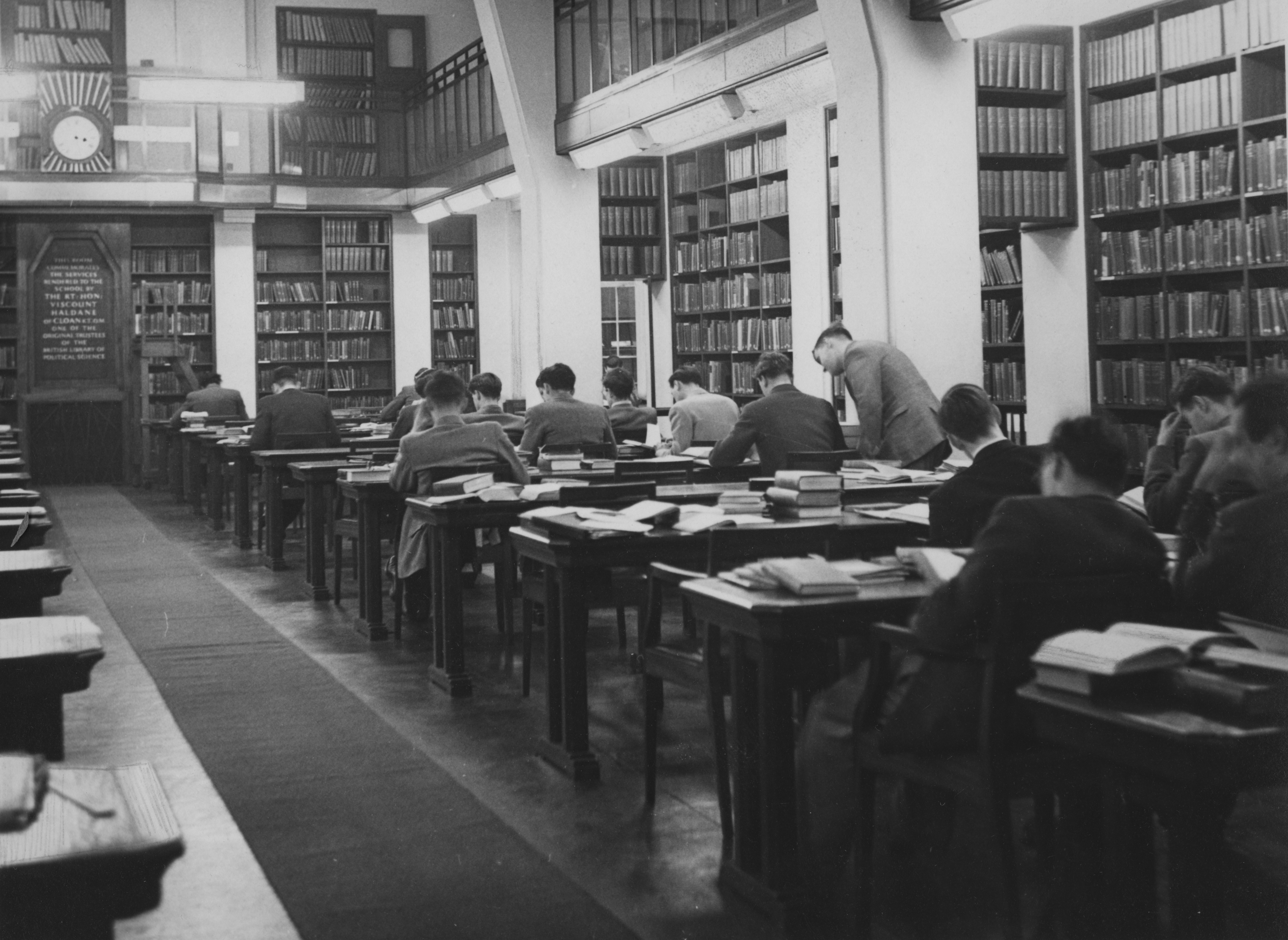 IMAGELIBRARY/706 Persistent URL